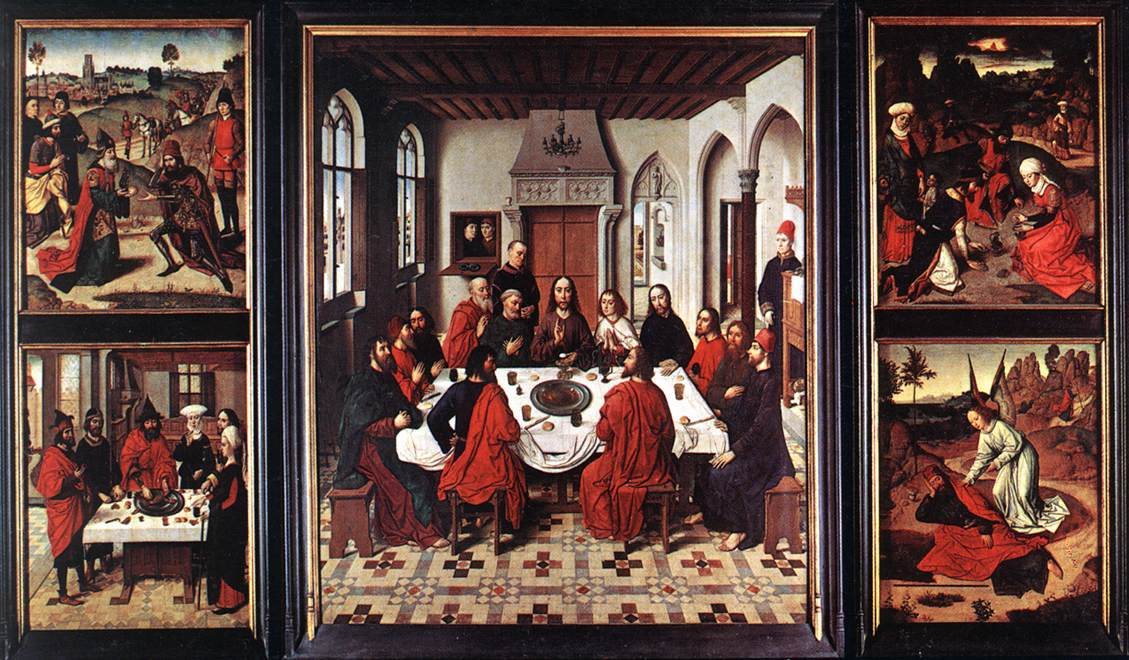 Dieric Bouts, Altar of Holy Sacrament